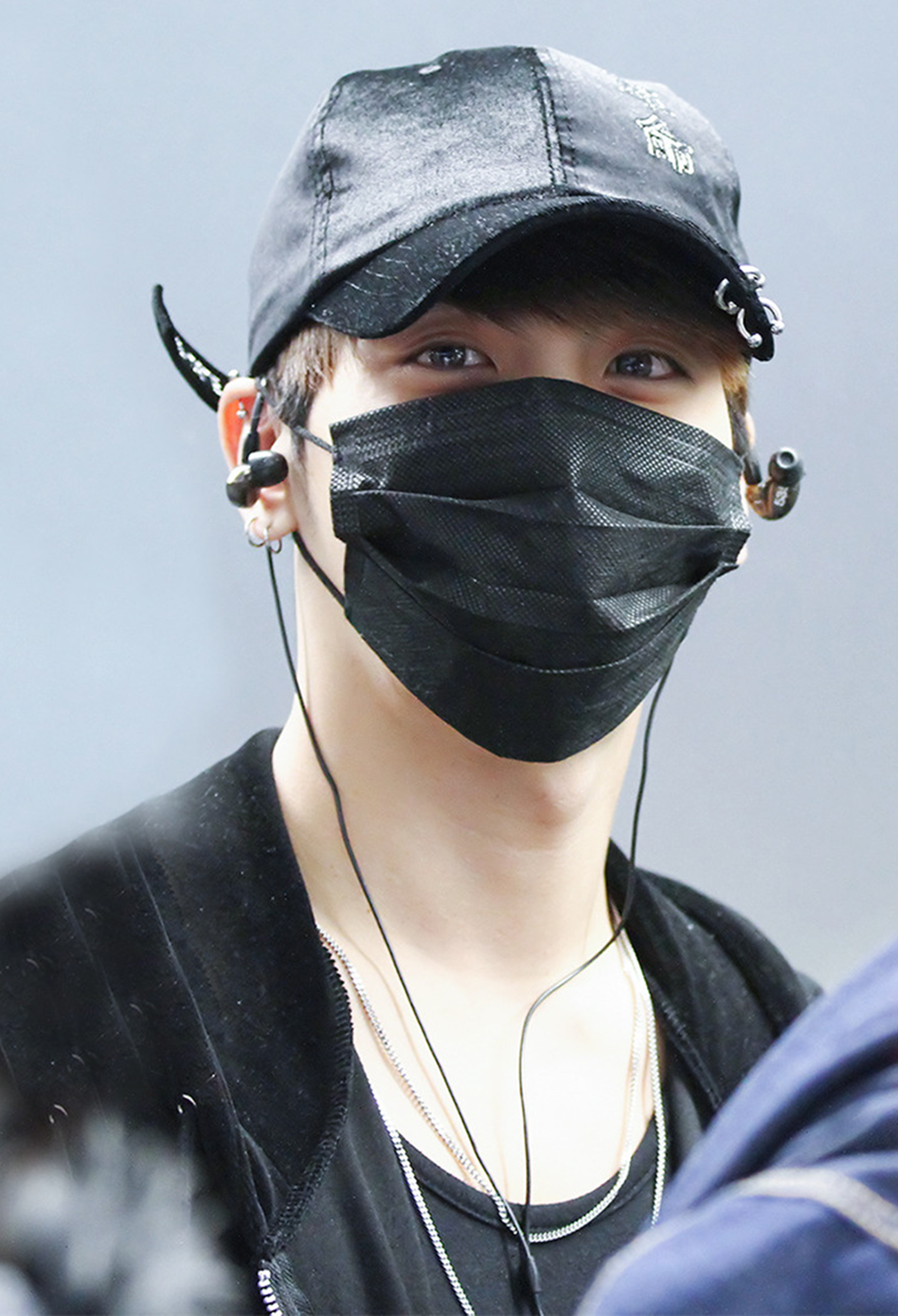 Kim Jong-hyun at Incheon International Airport on March 1, 2017.